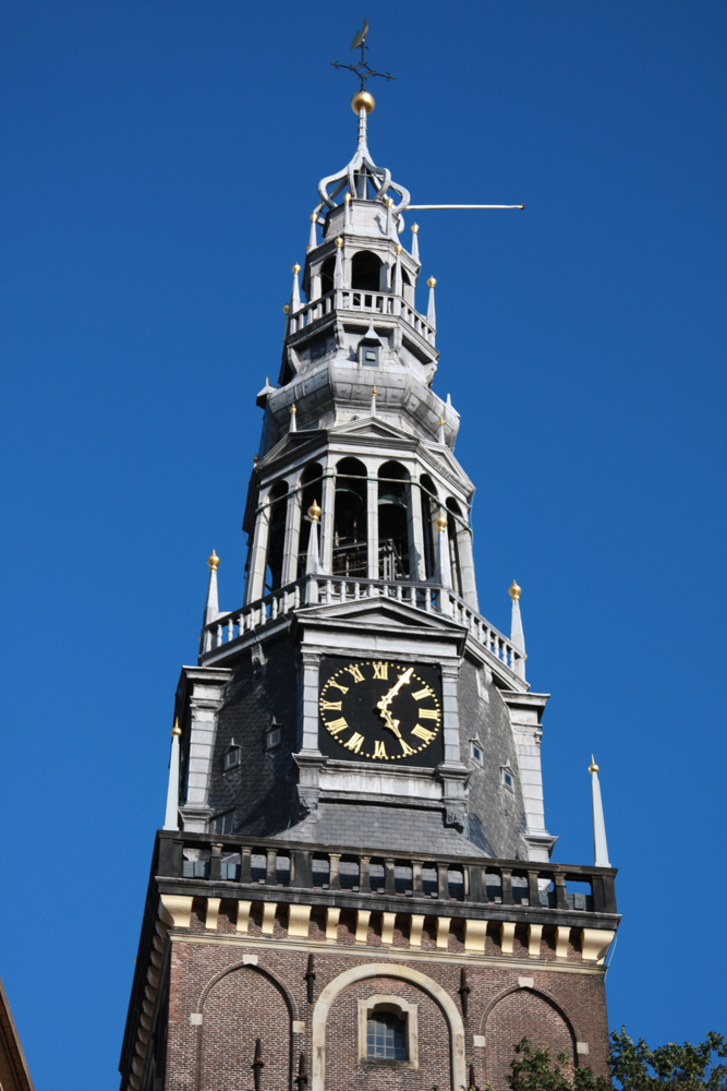 A beautiful old clock which I think is near or on the Nieuwmarkt